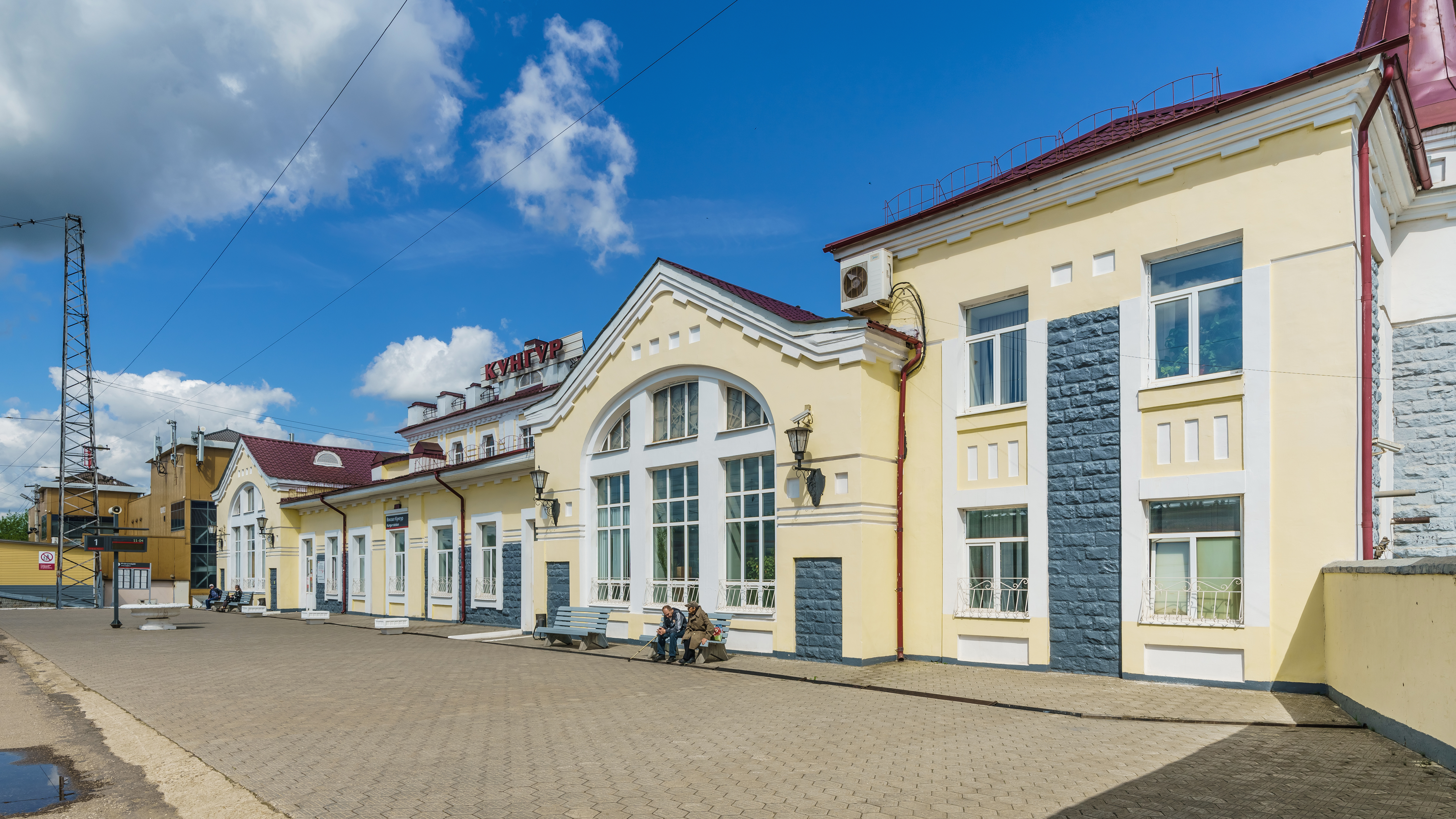 Railway station in Kungur, Perm Krai, Russia